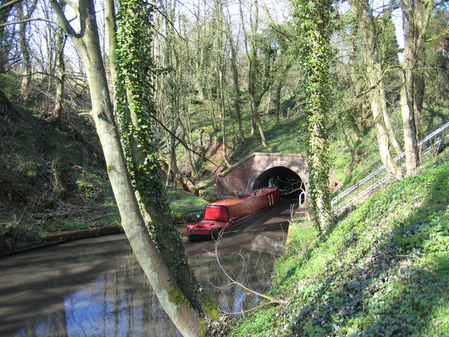 Wast Hill Tunnel southern portal. A tug-style narrowboat emerges from the south end of the 2493 metre long Wast Hill Tunnel on the Worcester and Birmingham Canal. The tunnel opened in 1797 and is one of the longest in the country. The other end is at 2544 with several intermediate construction/ventilation shafts such as 151870.